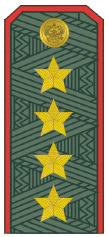 Rank insignia of the Soviet Army (1997), here "General of the army" (OF9) Army – shoulder strap service uniform.